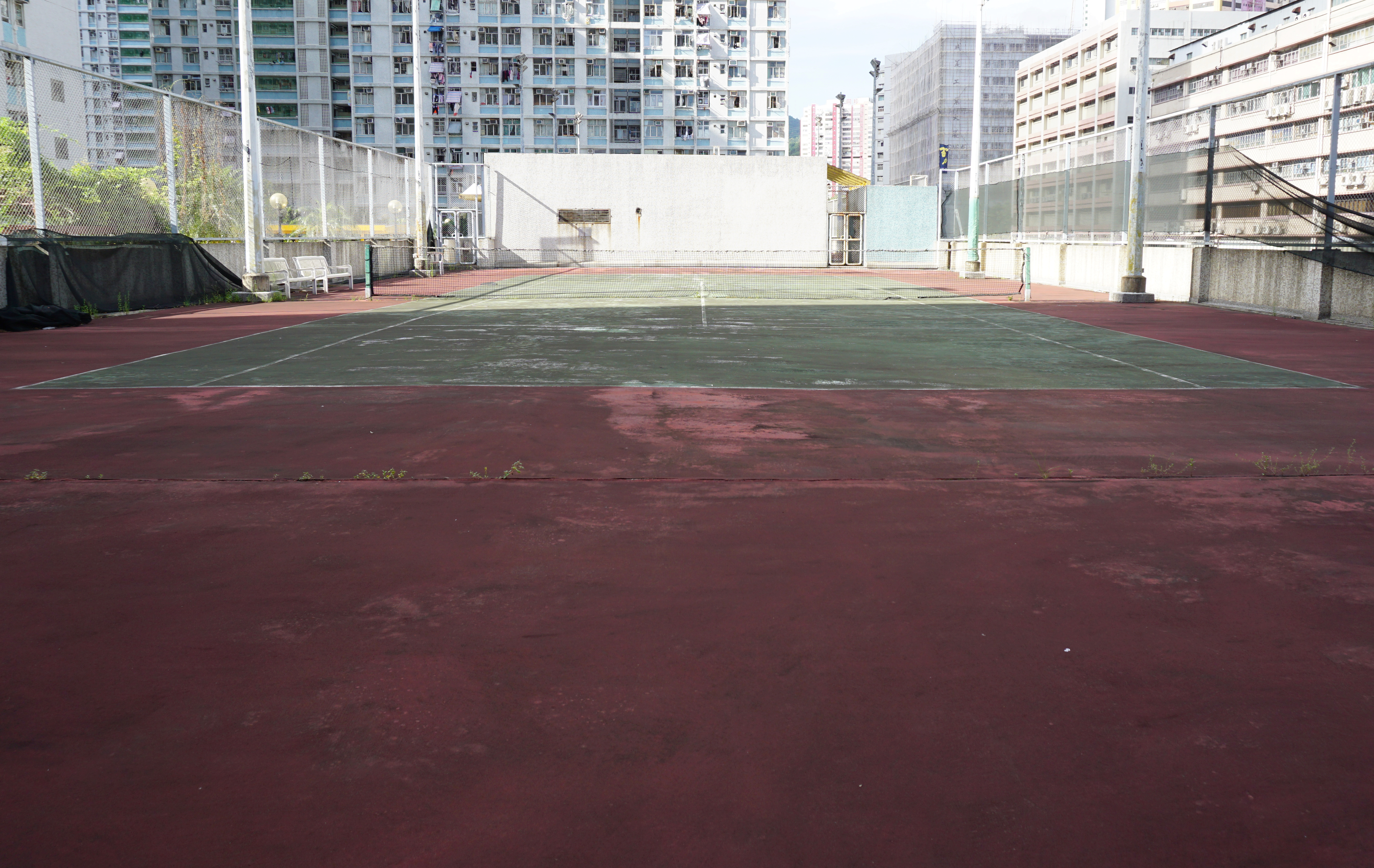 Kwai Hing Estate in Kwai Chung, Hong Kong.